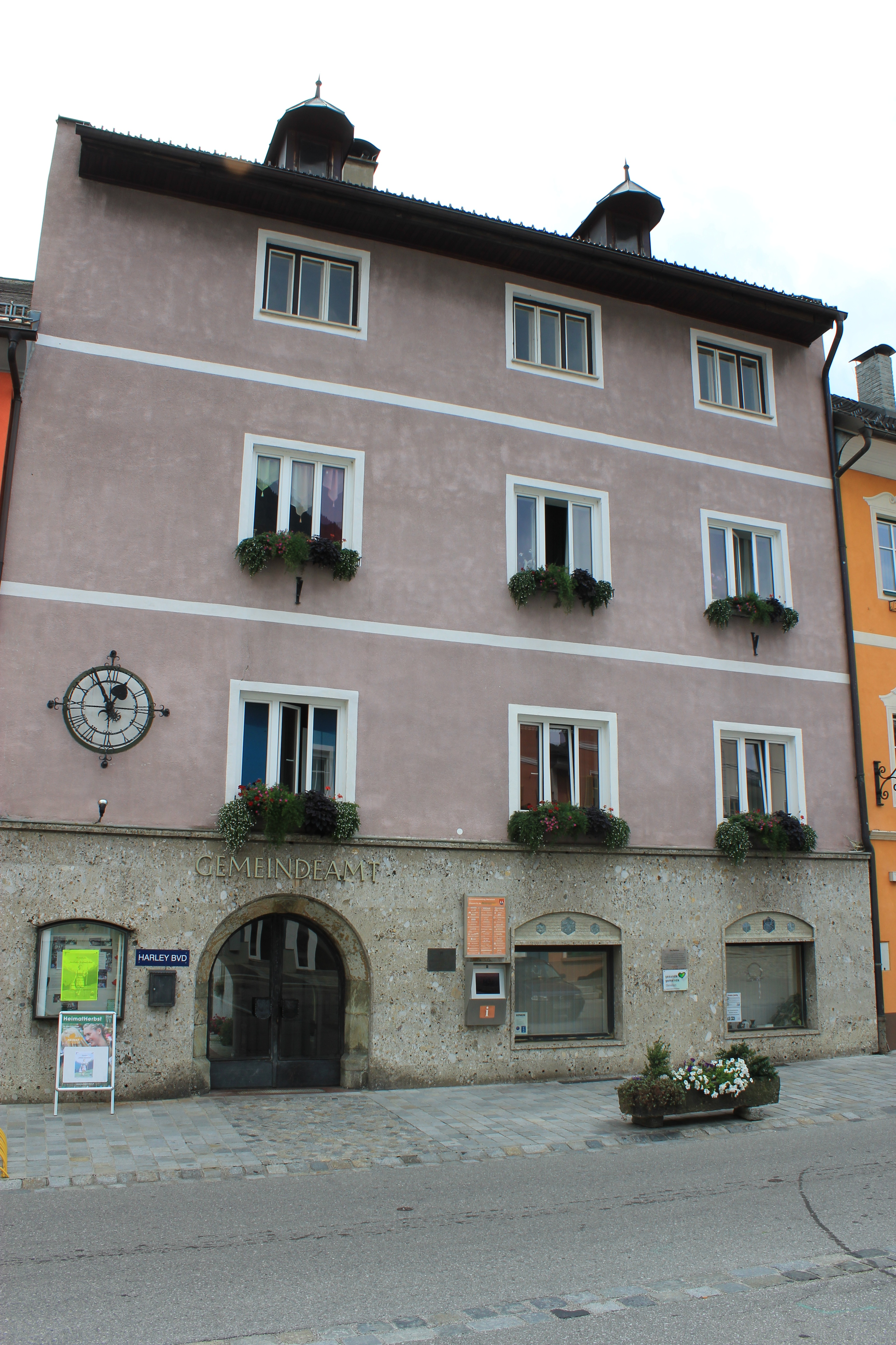 Townhall in Obervellach